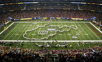 Chris Southard, WVU Band Photographer —GNU Free Documentation License written by the Free Software Foundation. This was originally written to license free software documentation. WVU ROX!